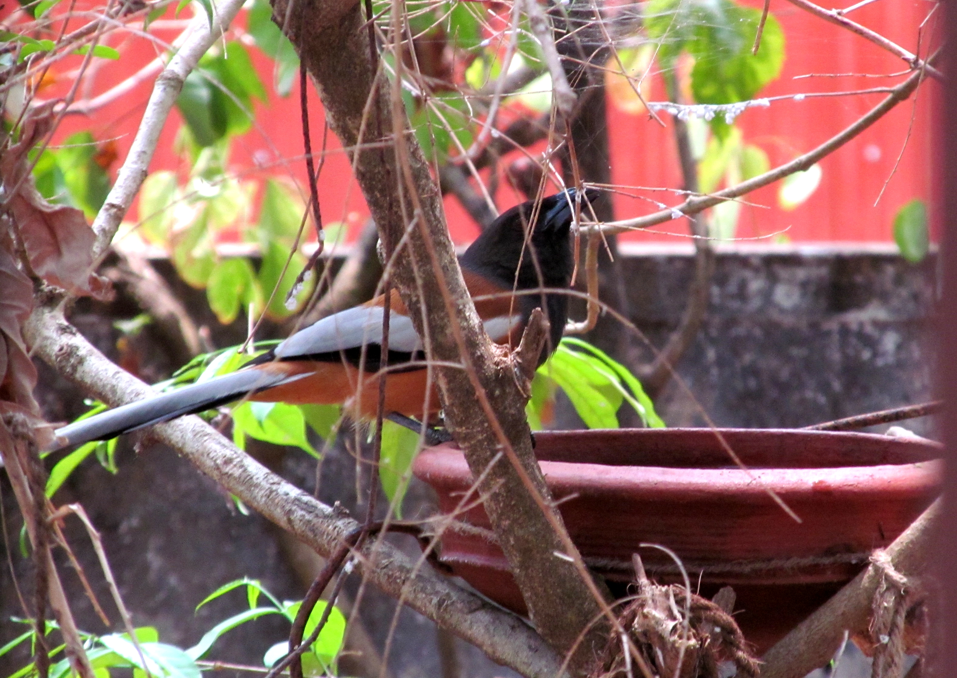 Rufous Treepie